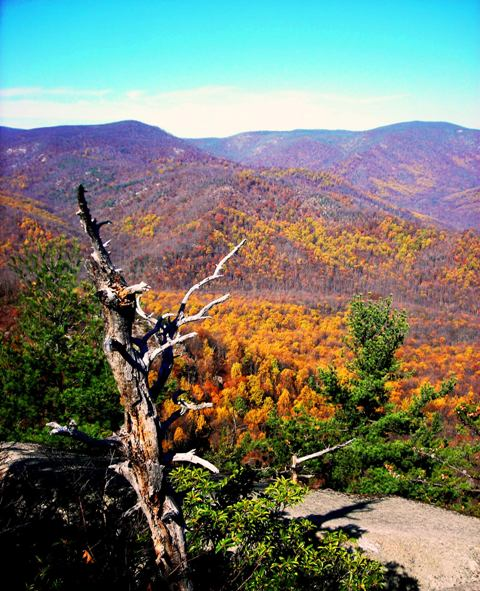 View from the summit of Old Rag mountain.